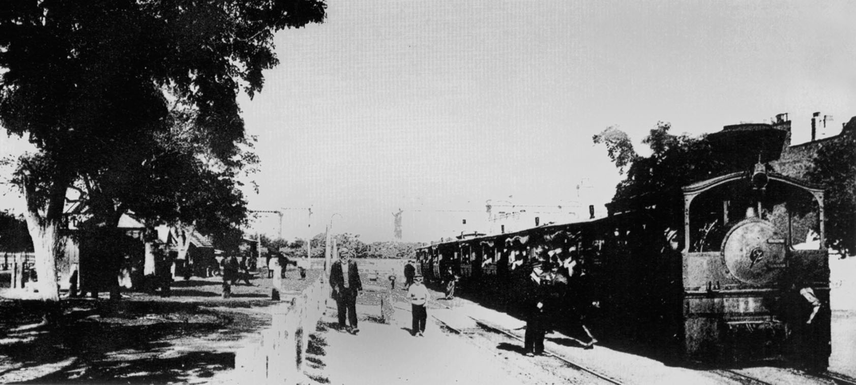 Railway station in Odesa (now Ukraine). Beginning of the 20th century.